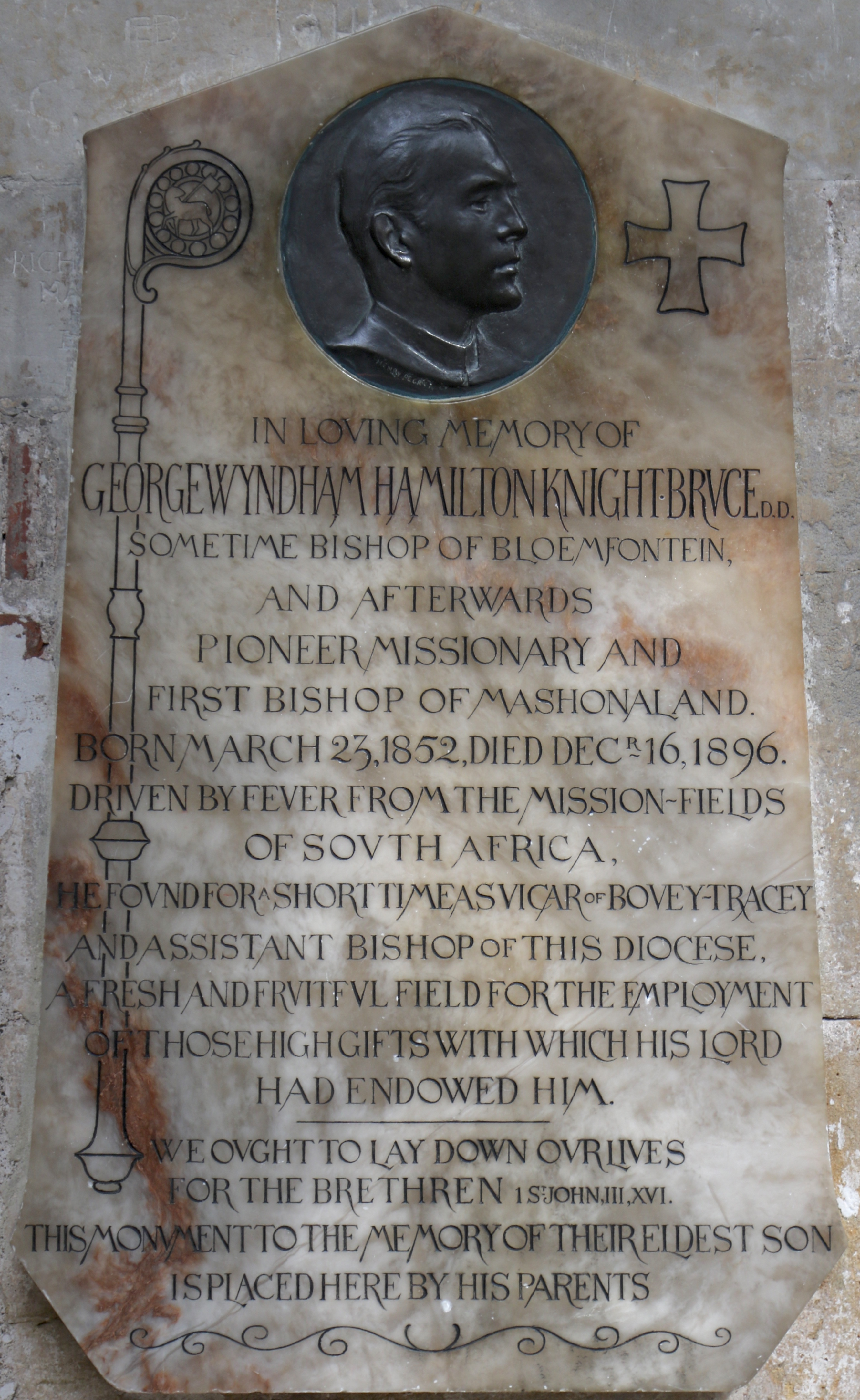 George Wyndham Hamilton Knight Bruce (23 March 1852 - 16 December 1896) Sometime Bishop of Bloemfontein First Bishop of Mashonaland